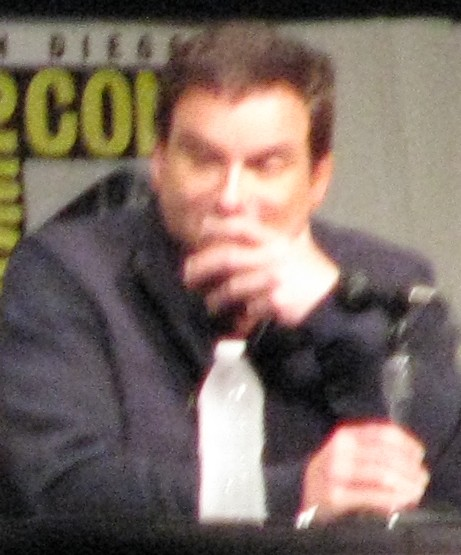 Shane Black promoting the film Iron Man 3 at the 2012 San Diego Comic Con International.